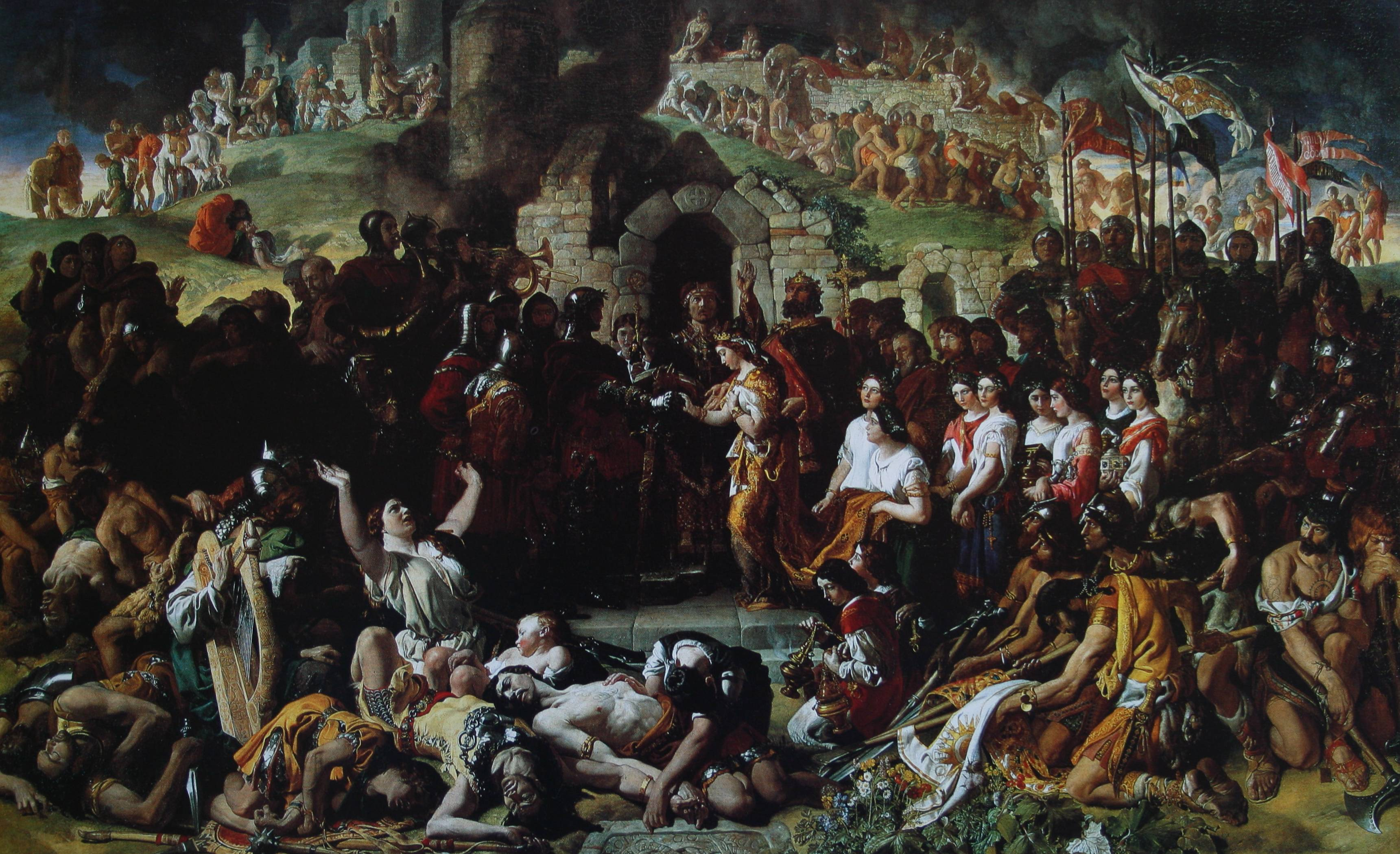 Marriage of Storngbow and Aoife